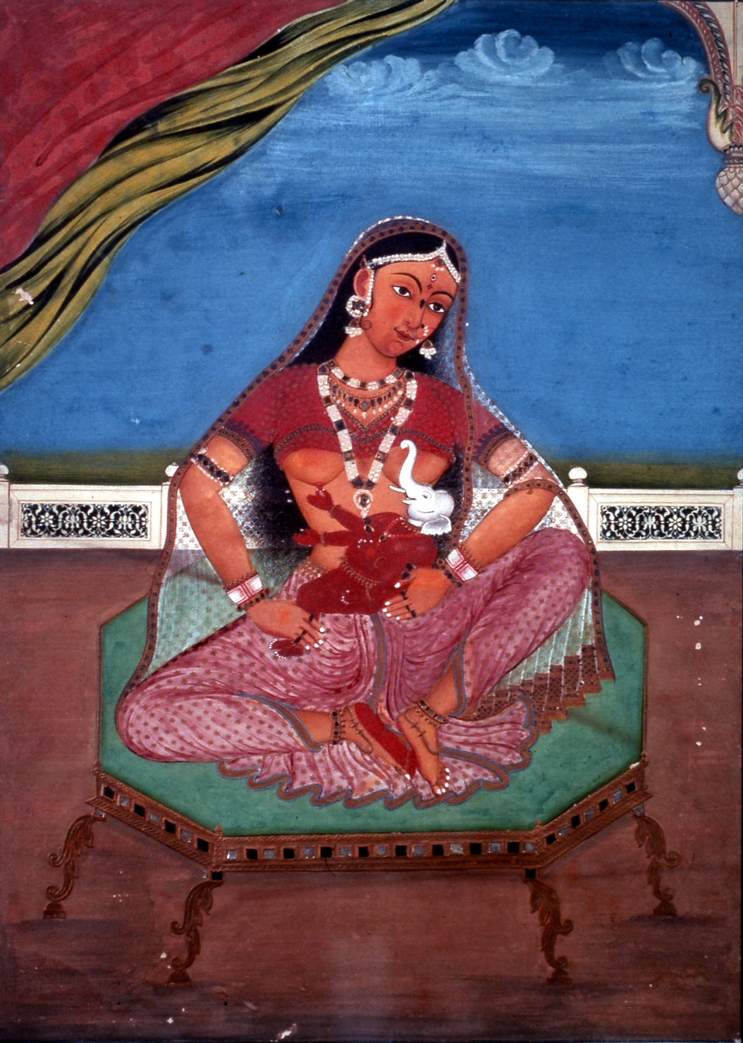 Parvati and Ganesha, ca. 1820 in Jaipur, India, "The technique used in this charming formal portrait of a nursing mother is European, but the subject is characteristically Indian. The young mother in the guise of an aristocratic Rajput lady is Parvati, the wife of Shiva, and the nursing infant is their son Ganesha. In contrast to the "human" mother, who seems to be posing for the artist on a throne placed on a balcony, the child's divinity is emphasized by his pink complexion, white elephant's head, and four arms. Nevertheless, like a human baby, he suckles one of his mother's nipples while fondling the other. So individualized is the face of Parvati, despite the third eye, that one wonders if the artist used a living model. He certainly observed European pictures and mastered the technique of spatial perspective and frontal view, moving away from the tradition of presenting the profile of the subject. The rendering of the curtain also reflects familiarity with European oil paintings. However, the use of the strident blue sky with wispy clouds and the intricate detailing of the architectural forms, garments, and jewelry are typically Indian."[1]